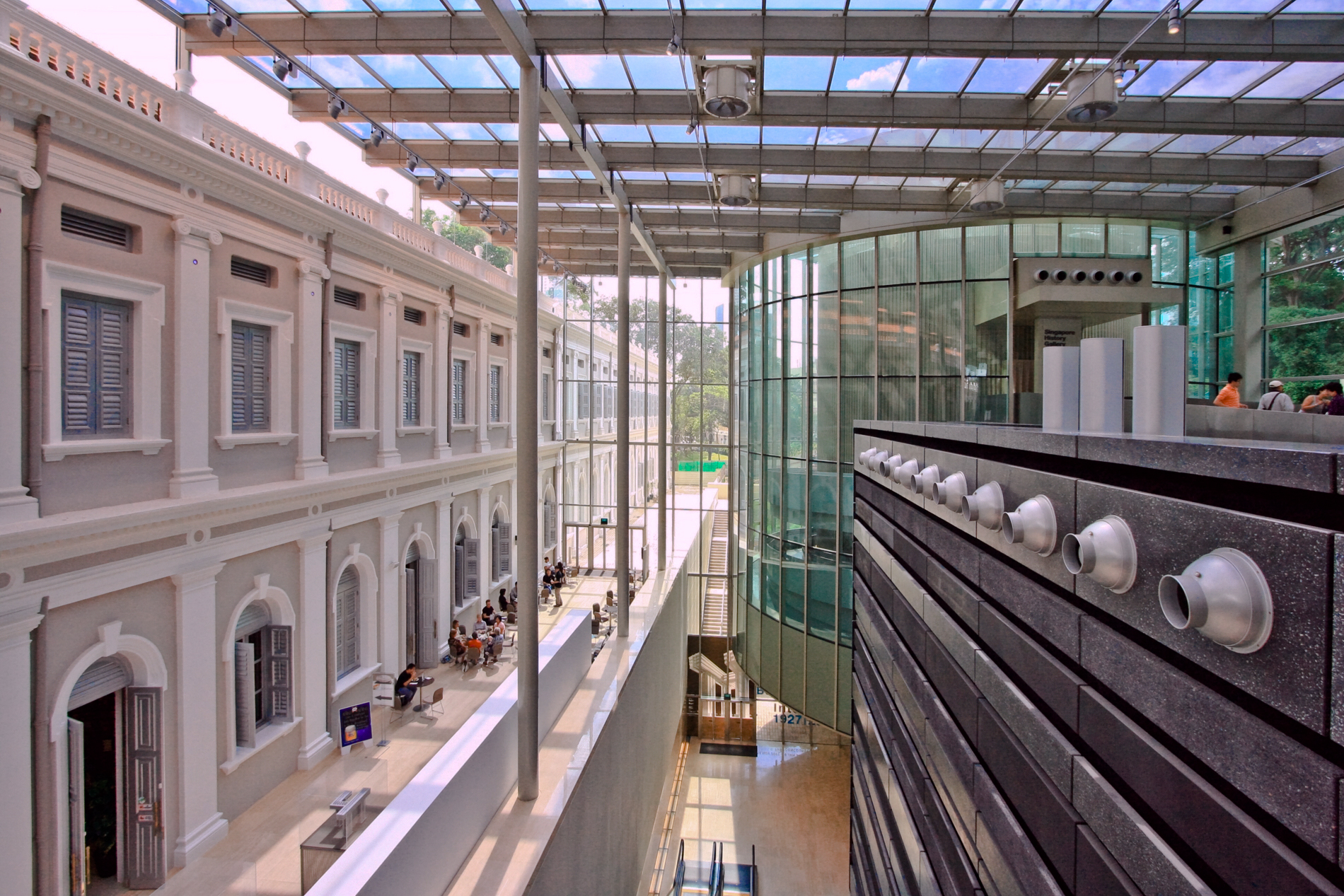 The Concourse of the National Museum of Singapore. An amalgamation between Classicism & Modernism.